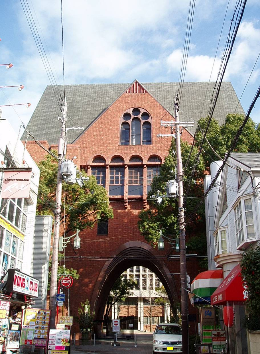 The west gate of Kinki University. Located in Higashiosaka, Osaka Prefecture, Japan.